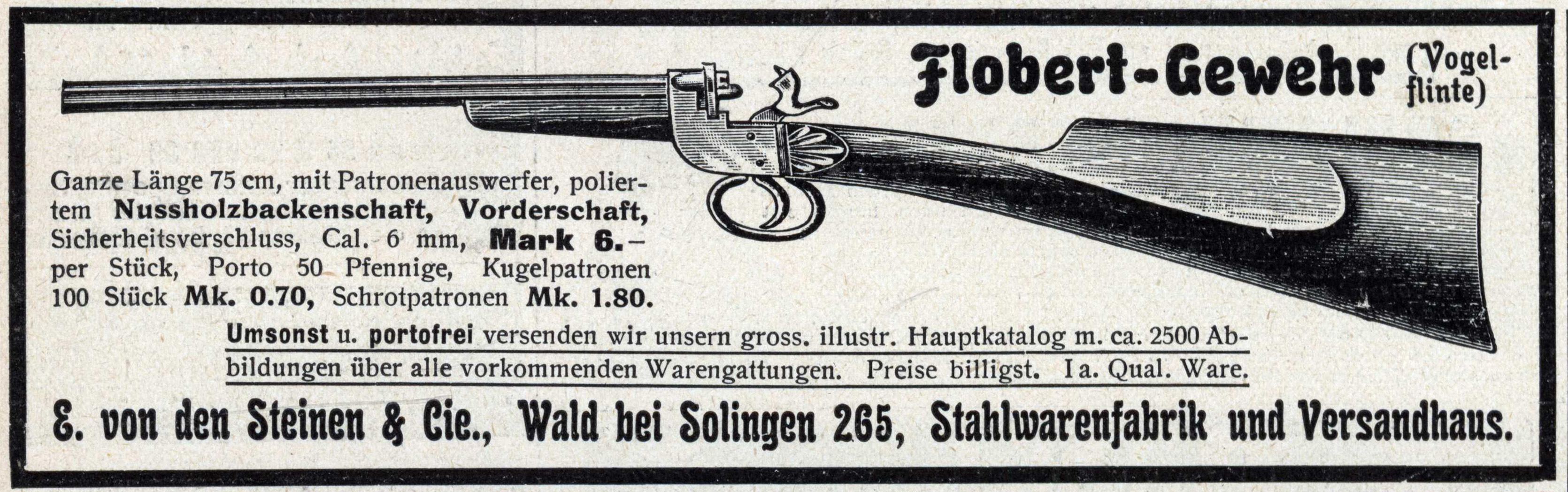 Advertisement from a German Periodical ("Vom Fels zum Meer", Vol. 22 (1903). Scanned from the Original (Bibhai's own)